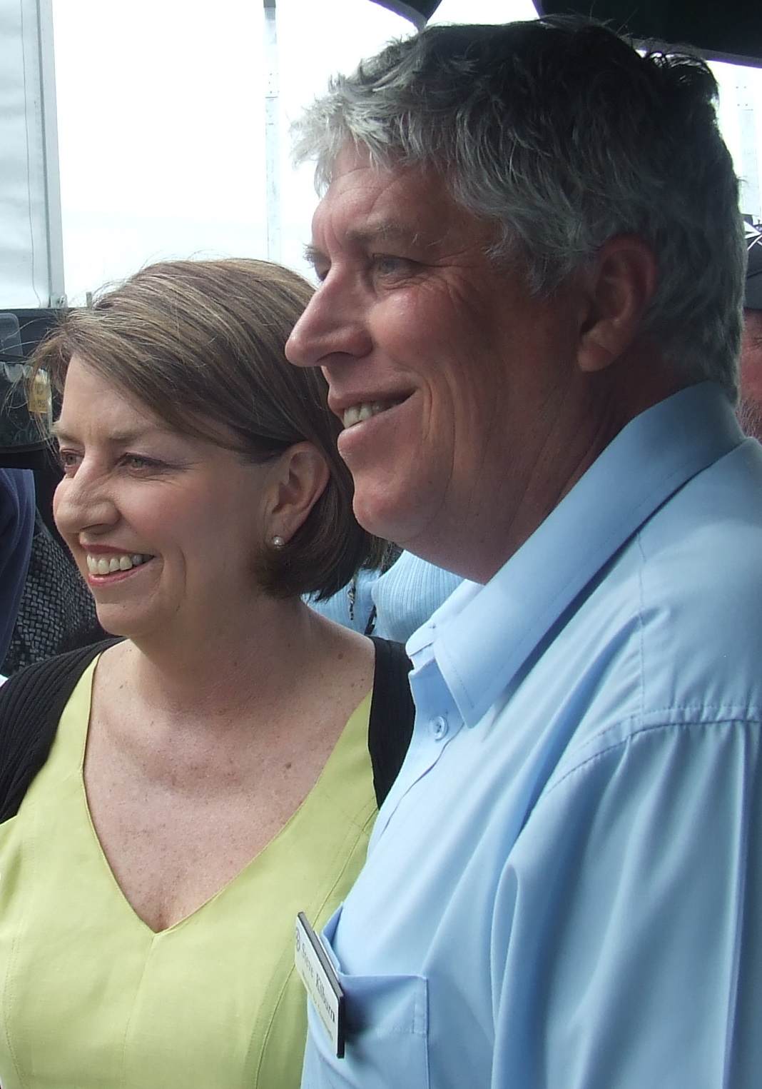 Queensland Premier Anna Bligh (left) and Member of Parliament for Chatsworth Steve Kilburn at the opening of the duplicate Gateway bridge and the renaming of the two bridges after Sir Leo Hielscher on May 20 2010 in Brisbane, Queensland, Australia